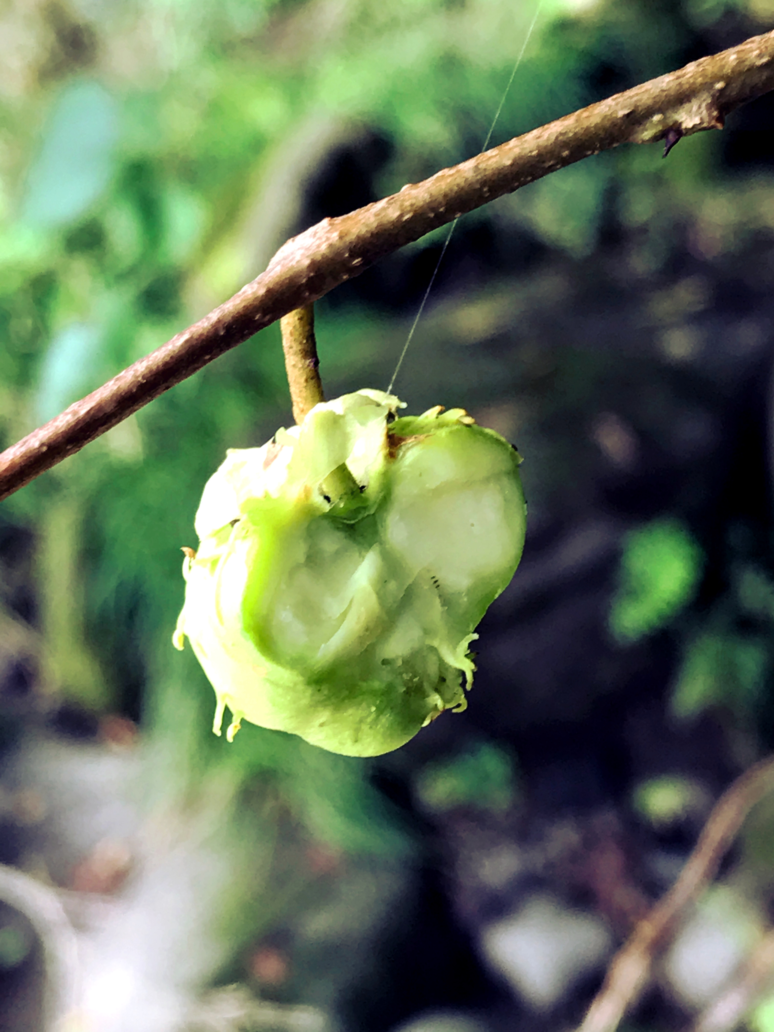 Gall of Actinidia polygama.